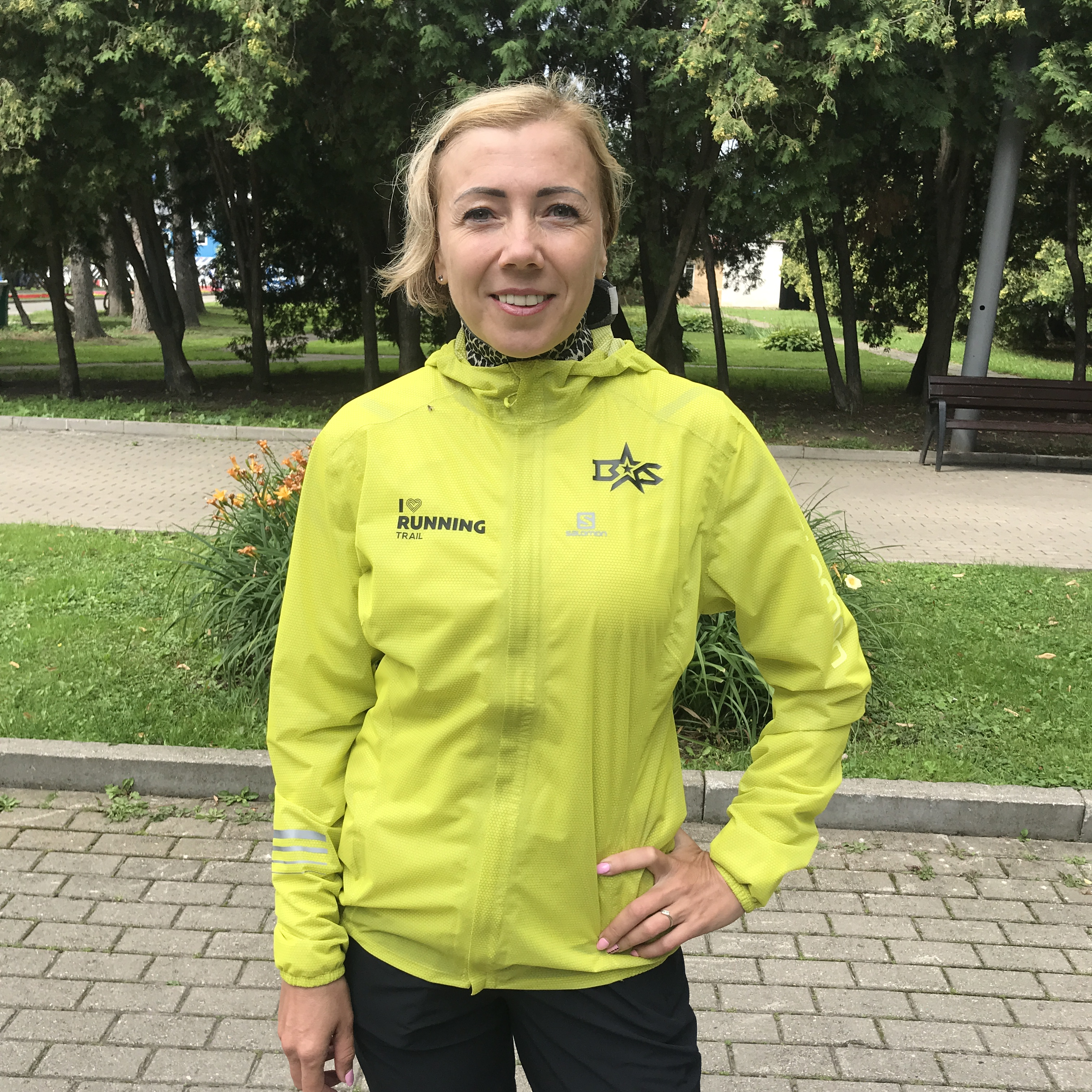 Parkrun Severny Rechnoy Vokzal 6 — 03.08.2019